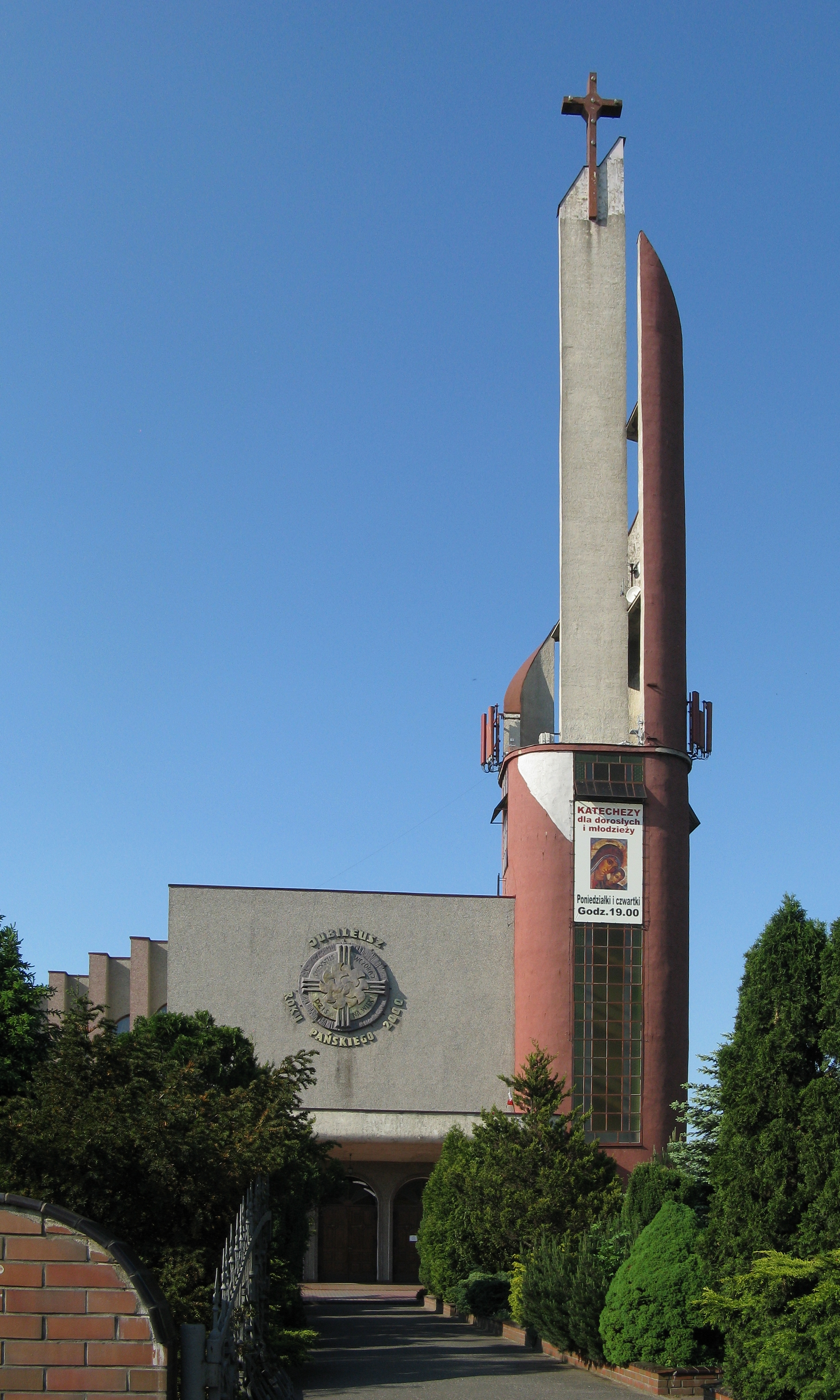 The Most Sacred Heart of Jesus church in Będzin-Ksawera, Poland.